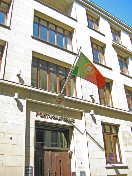 Photo of the Portugalhaus building in Hamburg Germany